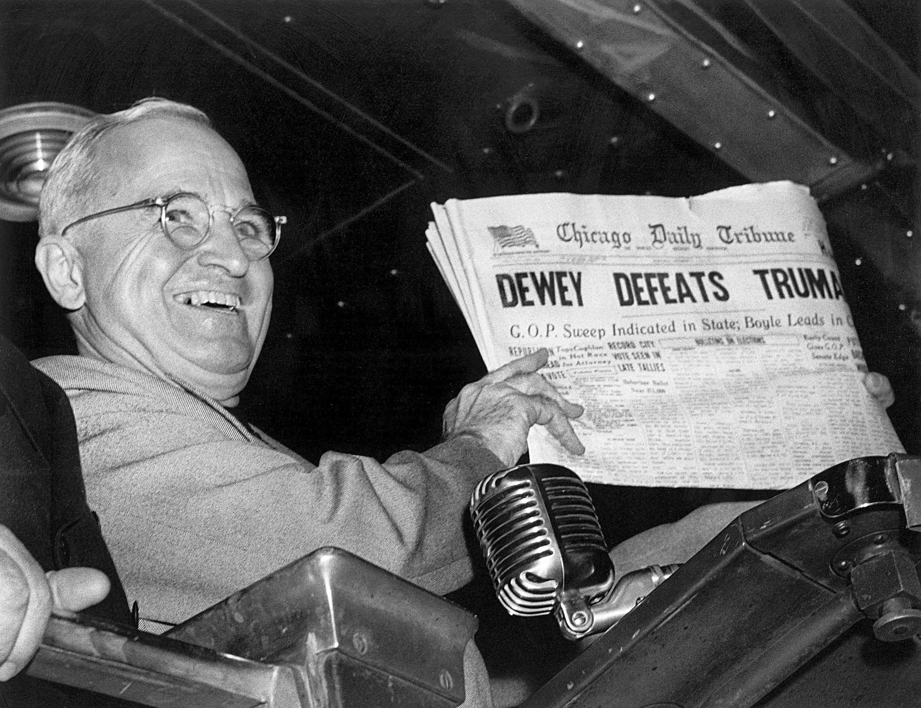 President Harry S. Truman, shortly after being elected as President, smiles as he holds up a copy of the Chicago Tribune issue predicting his electoral defeat. This image has become iconic of the consequences of, and bad polling data. The press conference where photo was taken was held at Union Station in St. Louis, Missouri, on November 3, 1948.